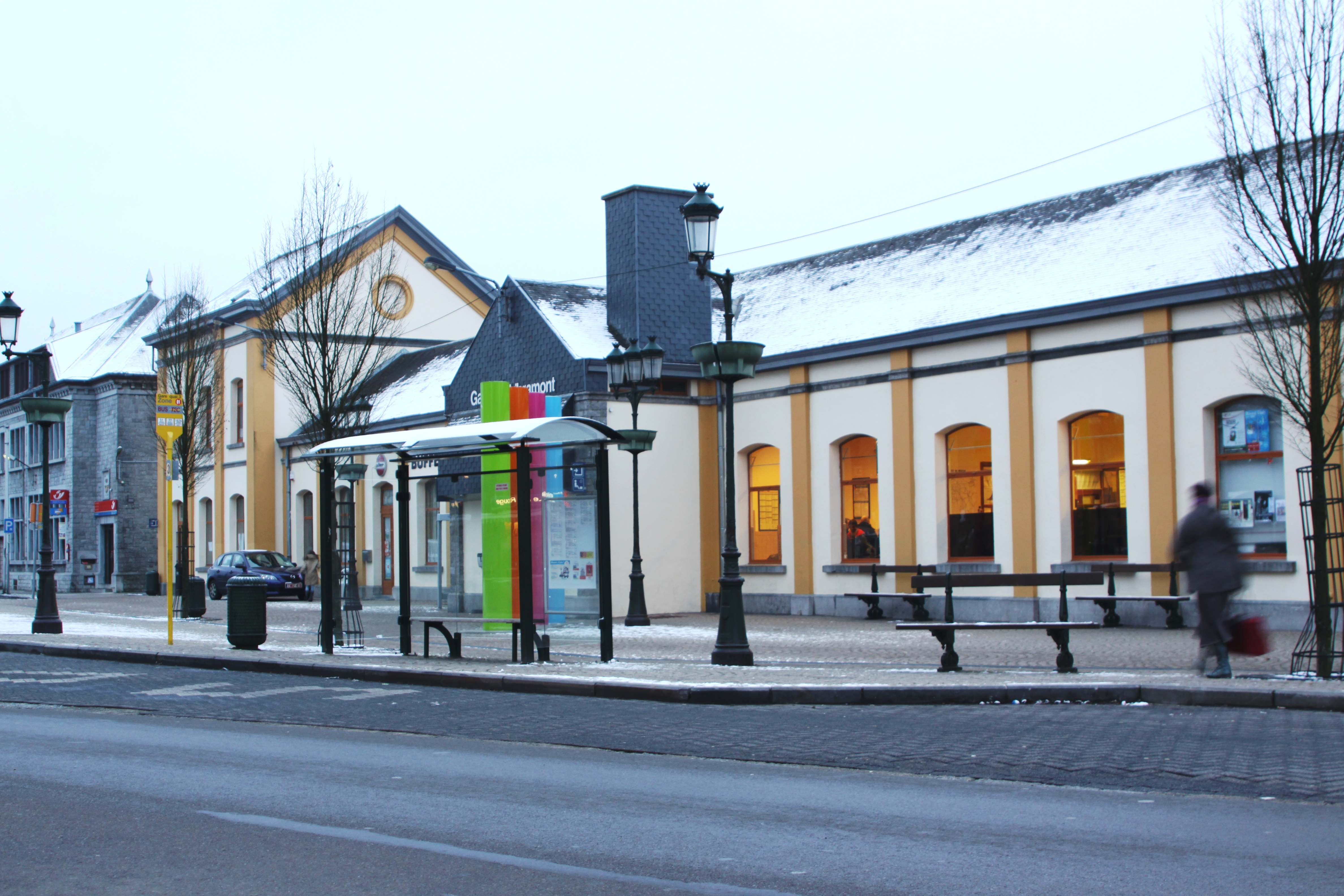 Train station Libramont in november 2010